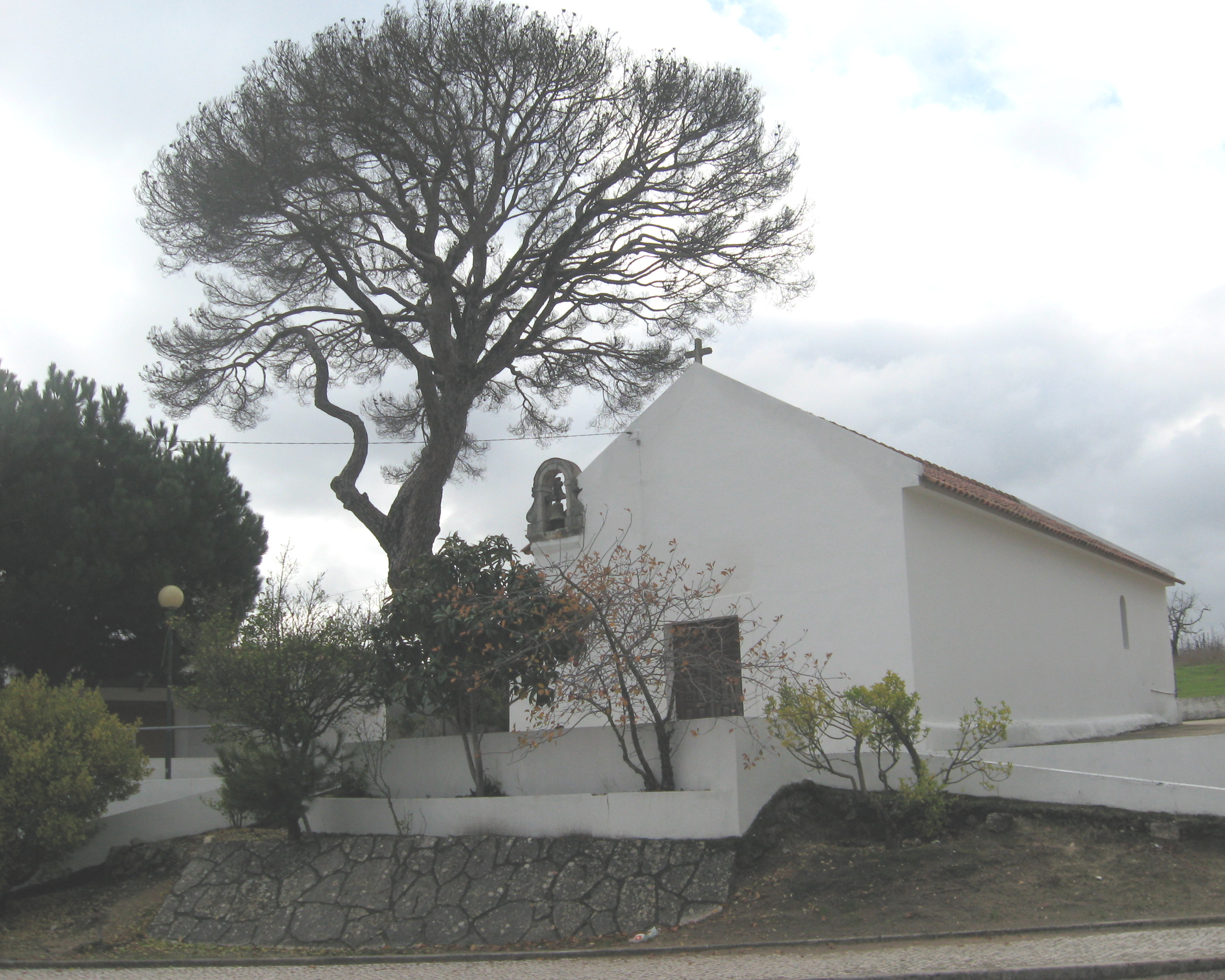 Alpedriz, Portugal, historical city belonging to the Military Order of Aviz, since 13th century until 1834, chapel of Santo António de Padua (born in Lisbon with pine tree, where he has rested in the 13th century according to legend, having protected the tree until nowadays